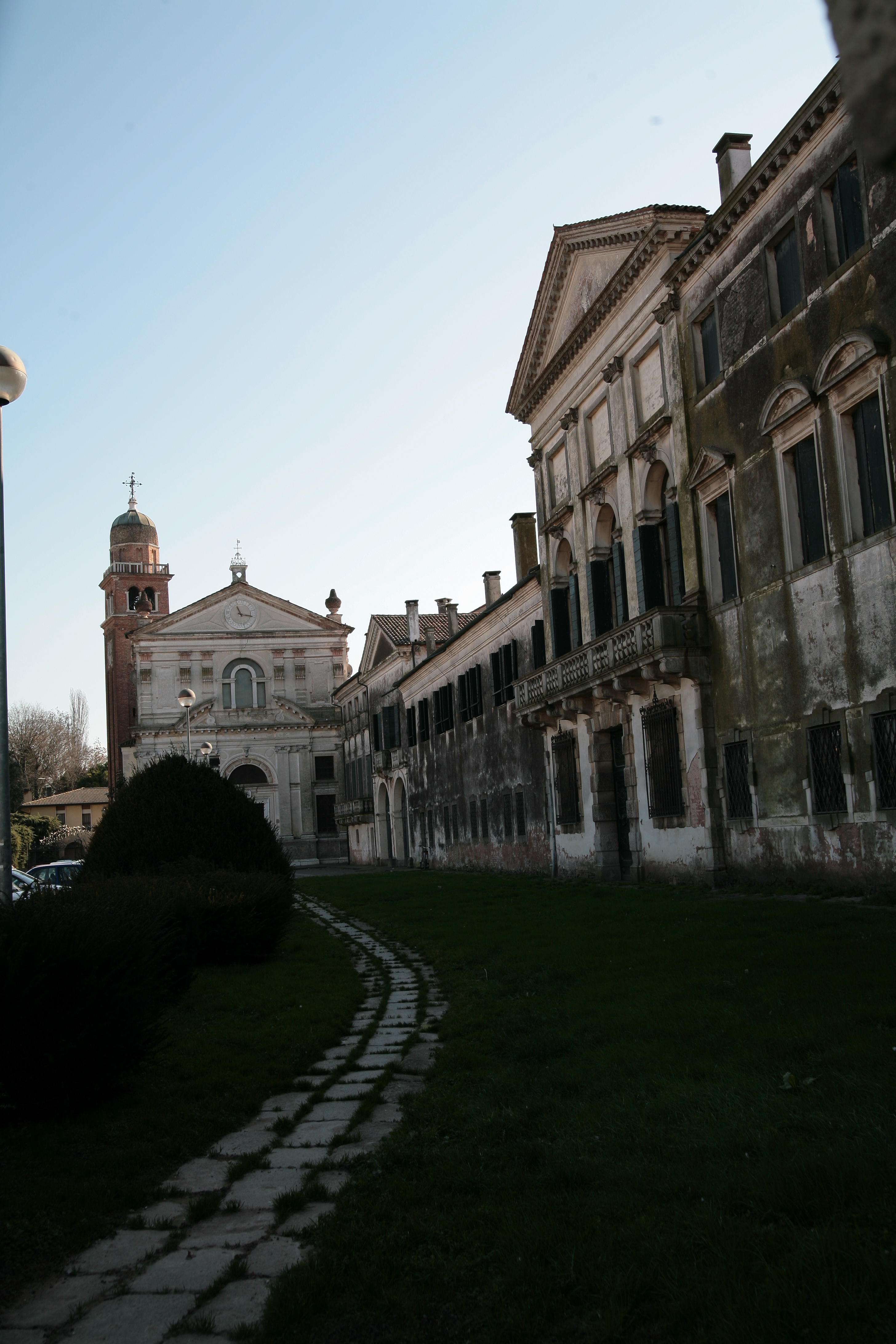 Villa Widmann e chiesa di Bagnoli di Sopra